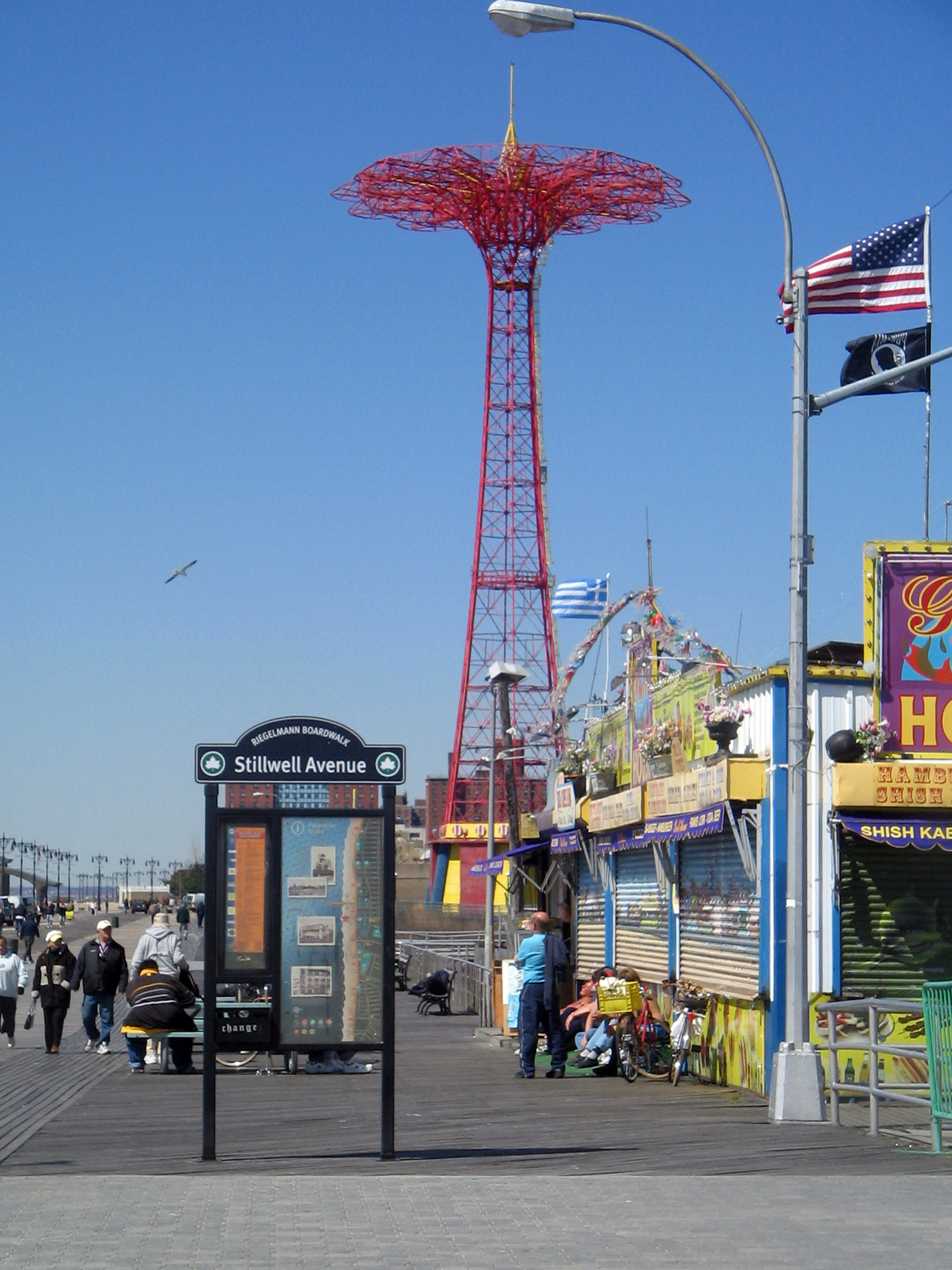 The Coney Island Parachute Jump, as seen from the Riegelmann Boardwalk.